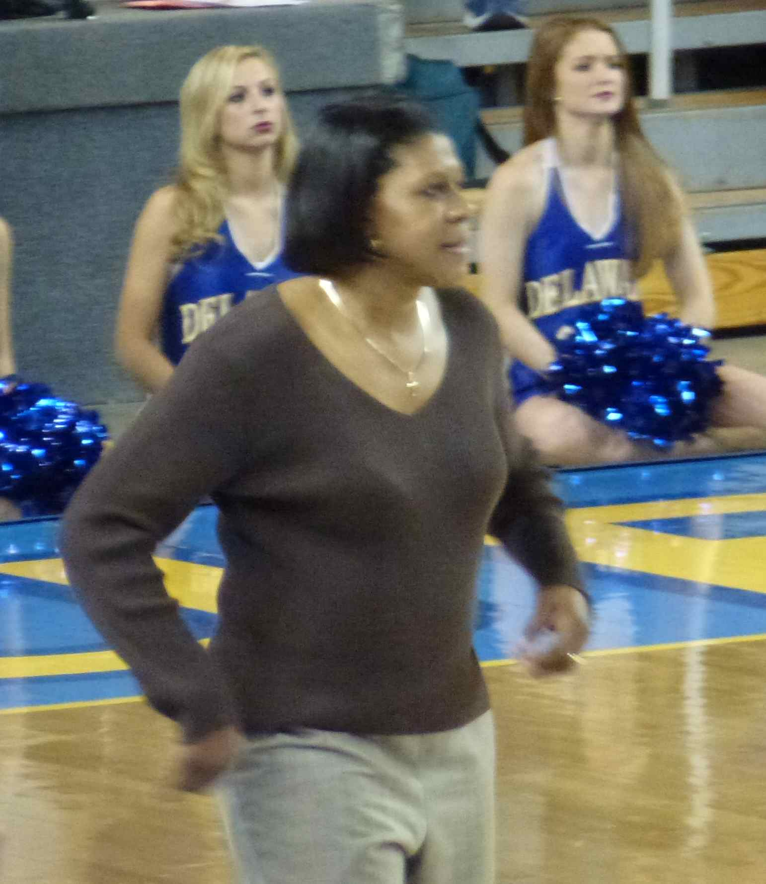 Jeri Porter, Head coach of the George Mason women's basketball team. Taken at the game between George Mason and the University of Delaware, held at the University of Delaware, 10 January 2013.